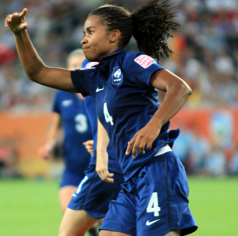 Laura Georges playing for France in the 2011 FIFA Women's World Cup